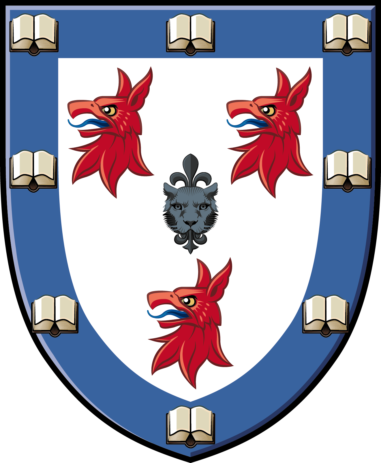 The Coat of Arms of Homerton College, displayed upon a shield.